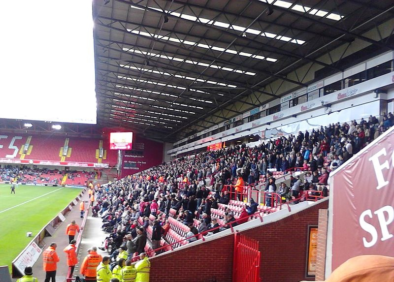 The family stand at Bramall Lane, taken at SUFC vs Coventry City on 30 October 2010